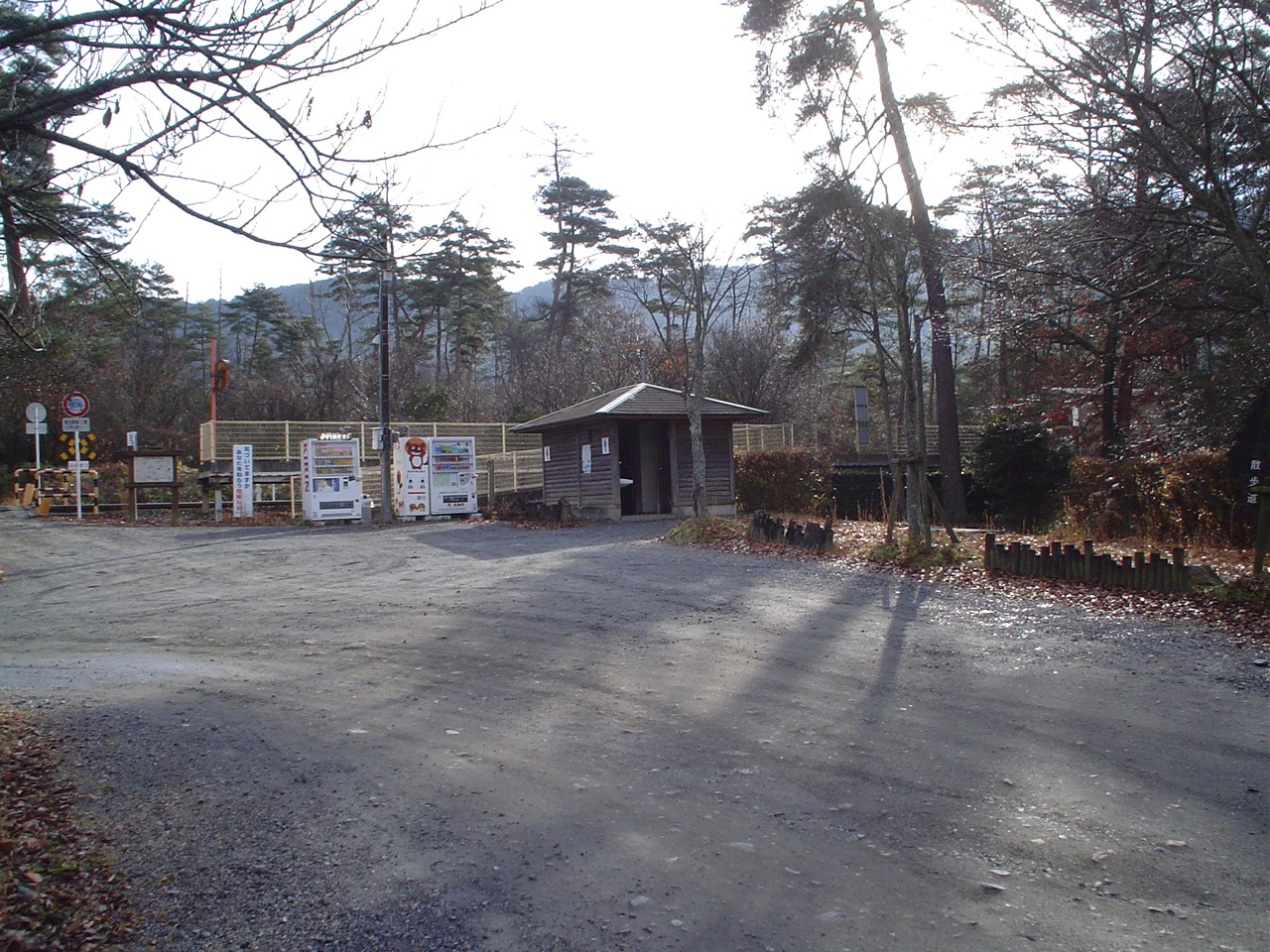 Shigaraki gushishi Station in Siga pref, Japan